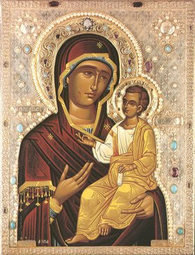 Orthodox Christian icon Theotokos Iverskaya